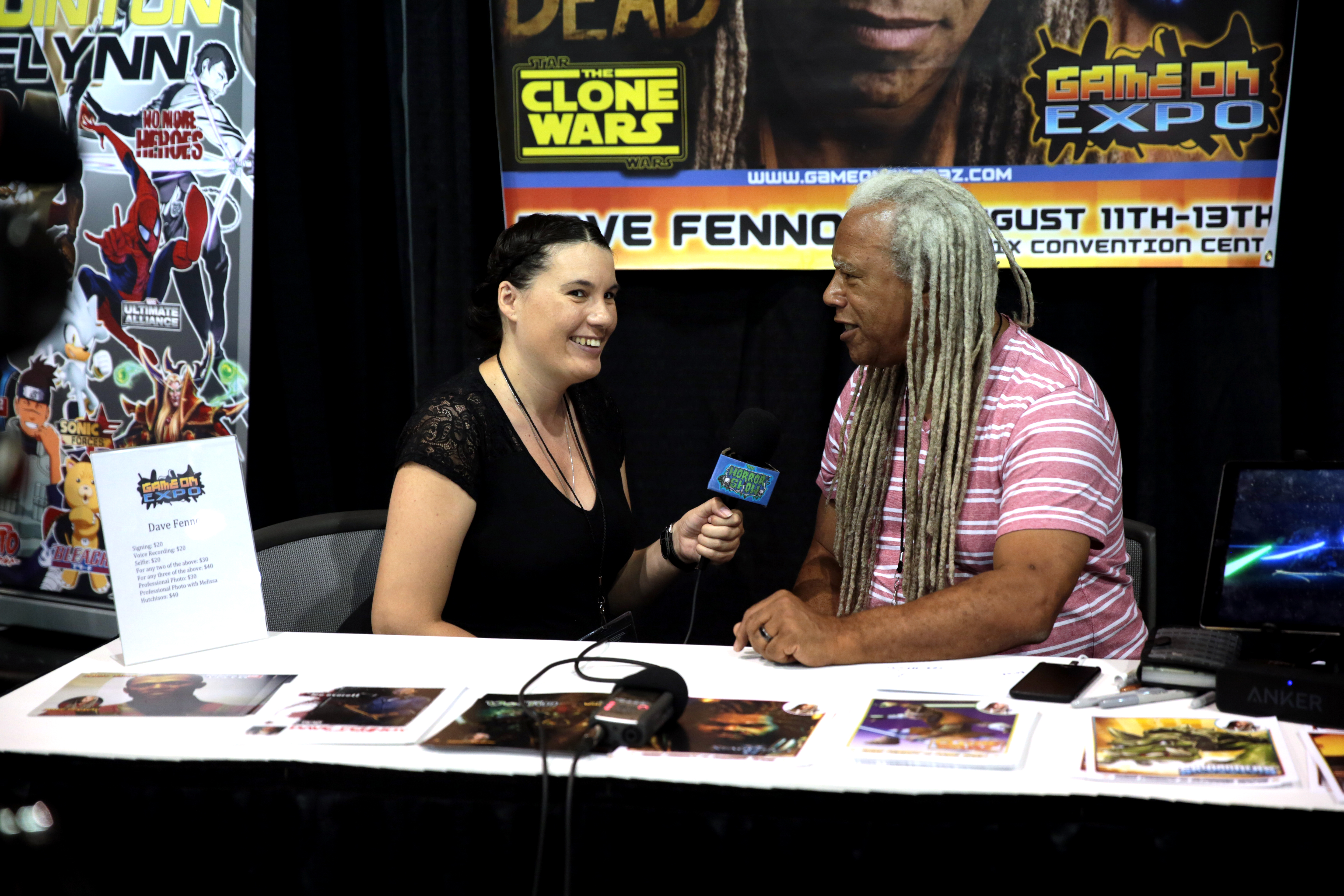 Dave Fennoy speaking with an attendee at the 2017 Game On Expo at the Phoenix Convention Center in Phoenix, Arizona.